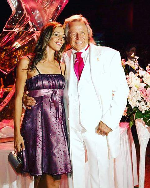 Nicole Midwin with Peter Nygard [Breast Cancer Awareness Show]